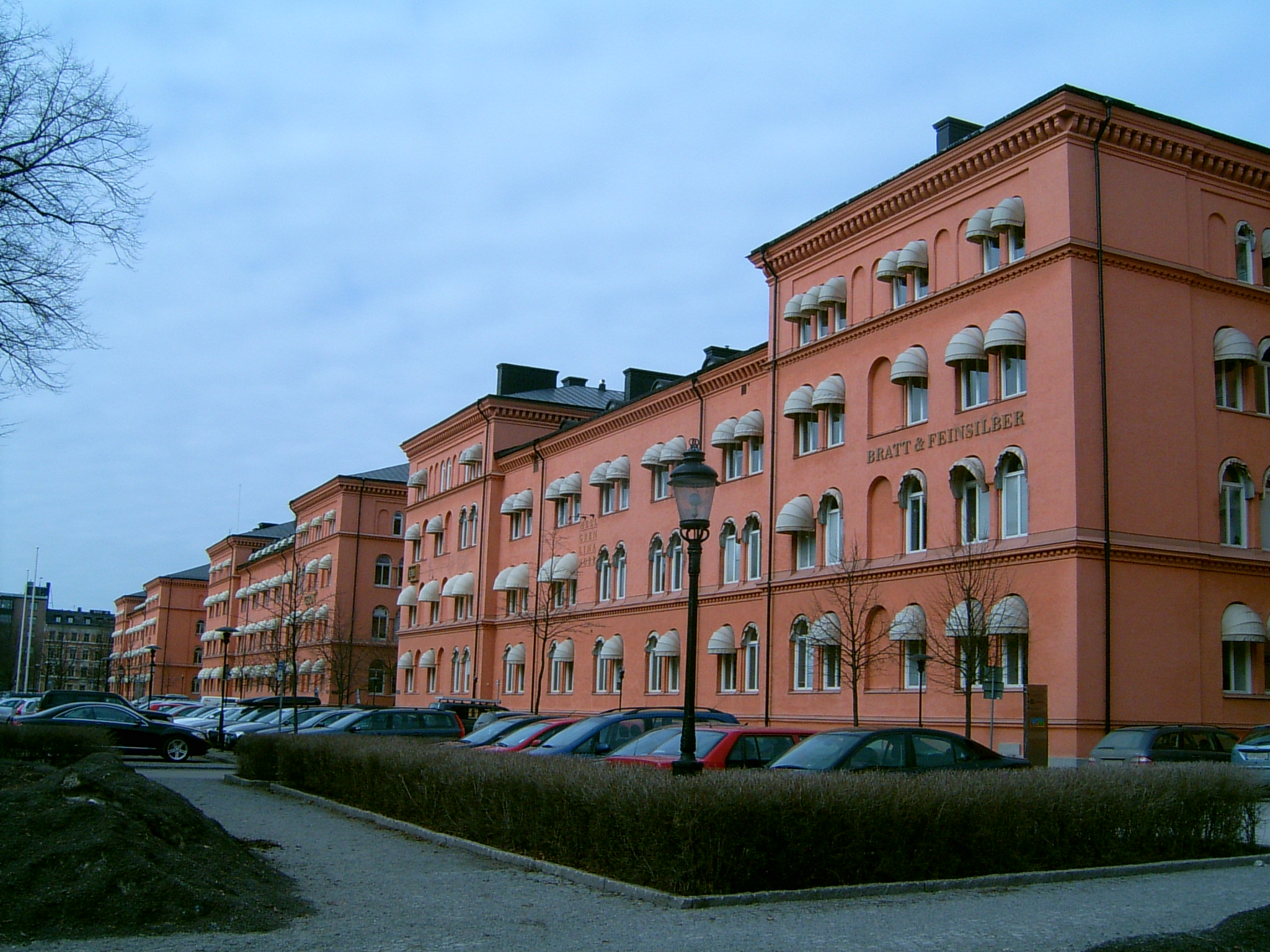 Barracks of Göta livgarde (I 2) to the right and Svea livgarde (I 1) to the left at Linnégatan in Stockholm.